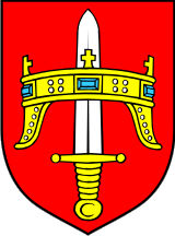 Official coat of arms of the Šibenik-Knin county in Croatia.